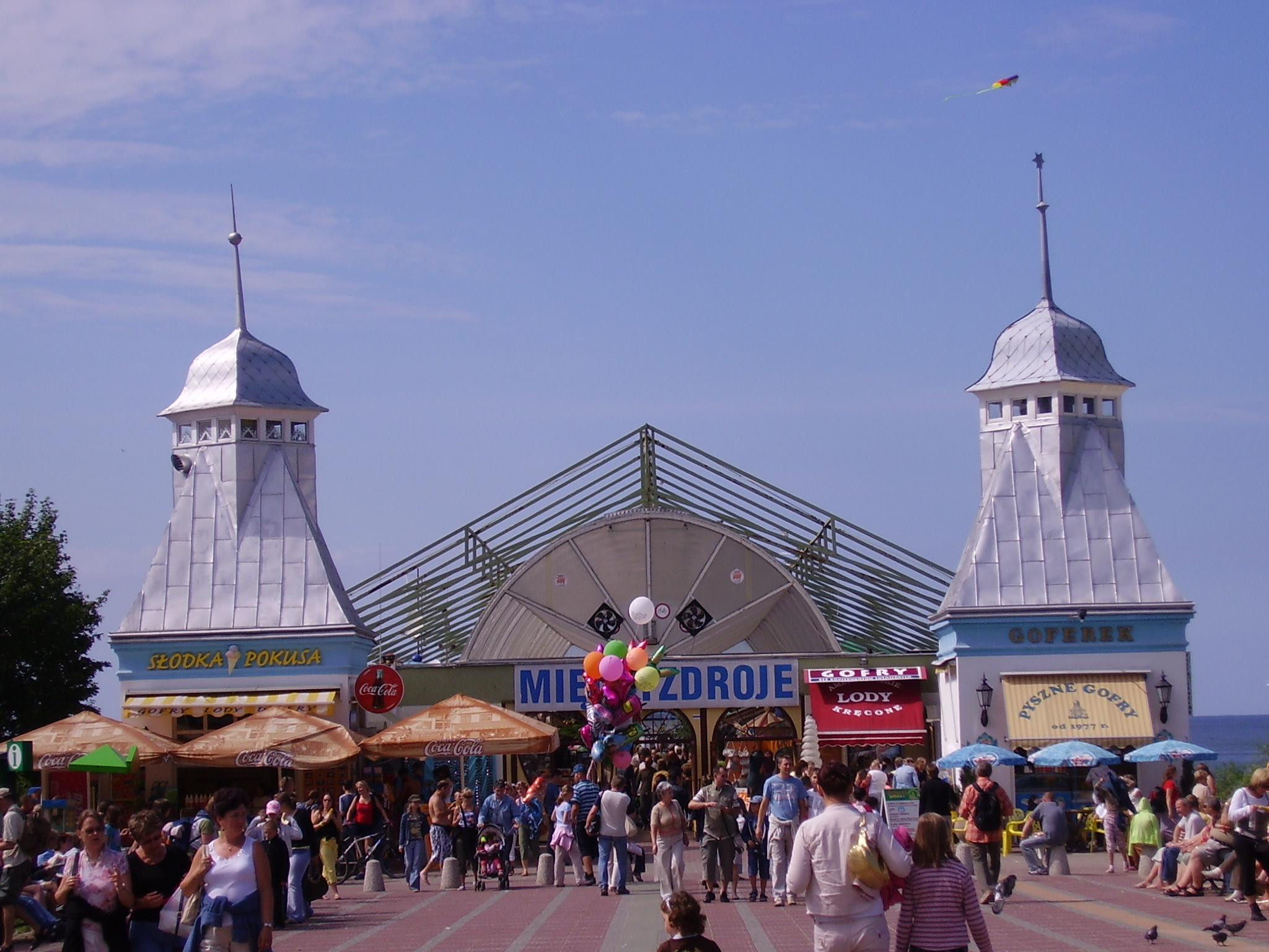 entrance on pier in Międzyzdroje (Poland)